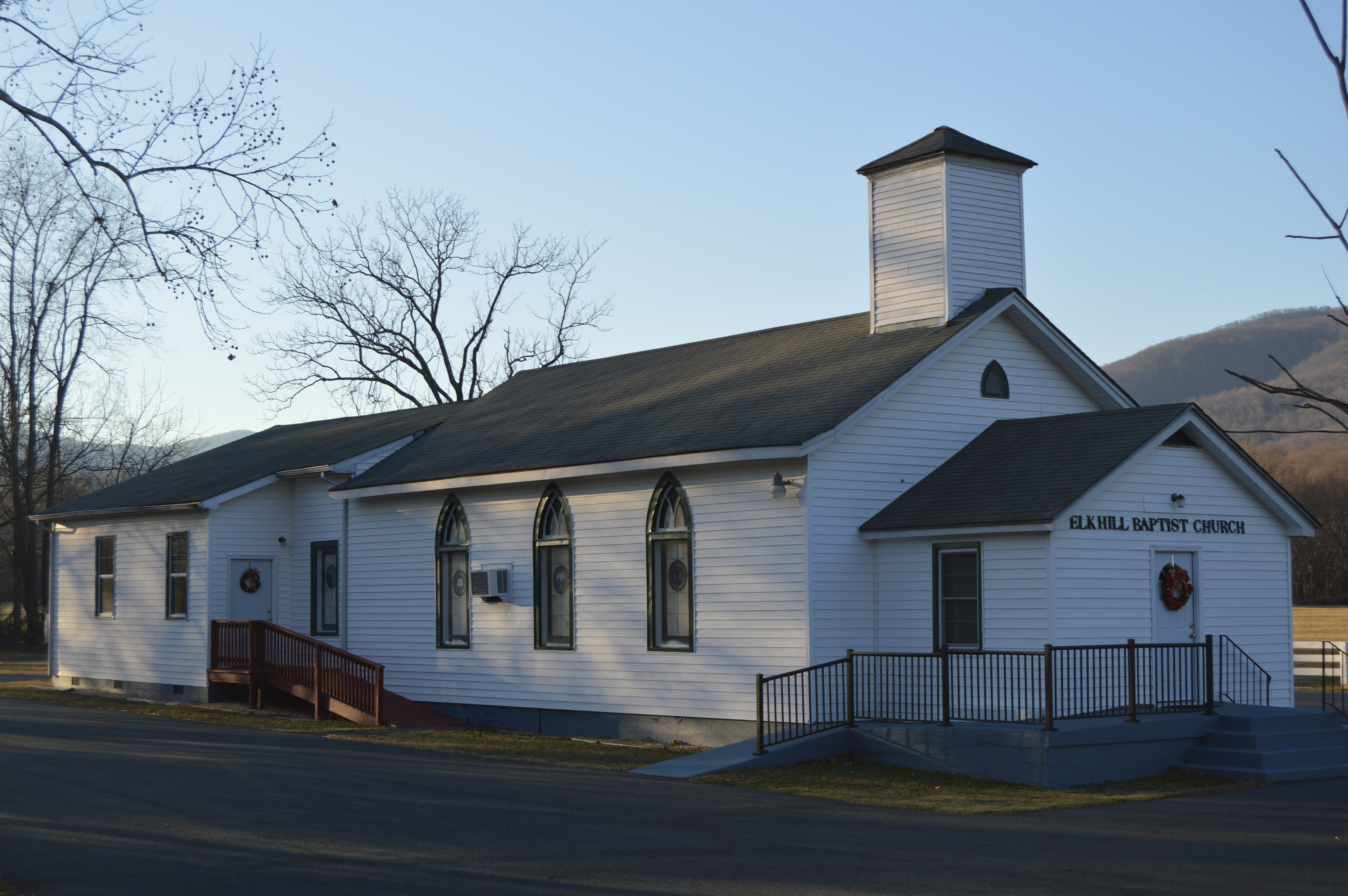 Front and southern side of the Elk Hill Baptist Church, located along Glenthorne Loop at its crossing of the South Fork Rockfish River (just south of Wintergreen) in Nelson County, Virginia, United States. Built in 1880, it is part of the South Rockfish Valley Rural Historic District, a historic district that is listed on the National Register of Historic Places.